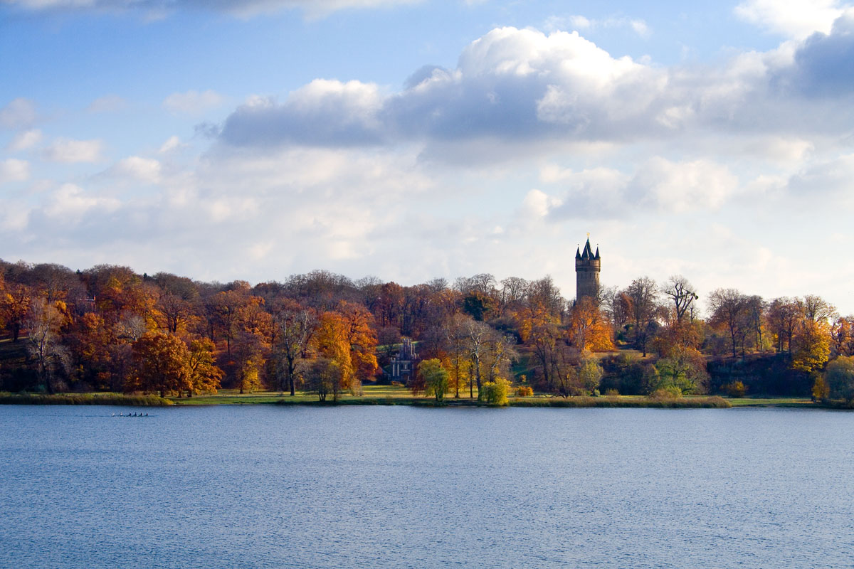 Babelsberg Park in autumn